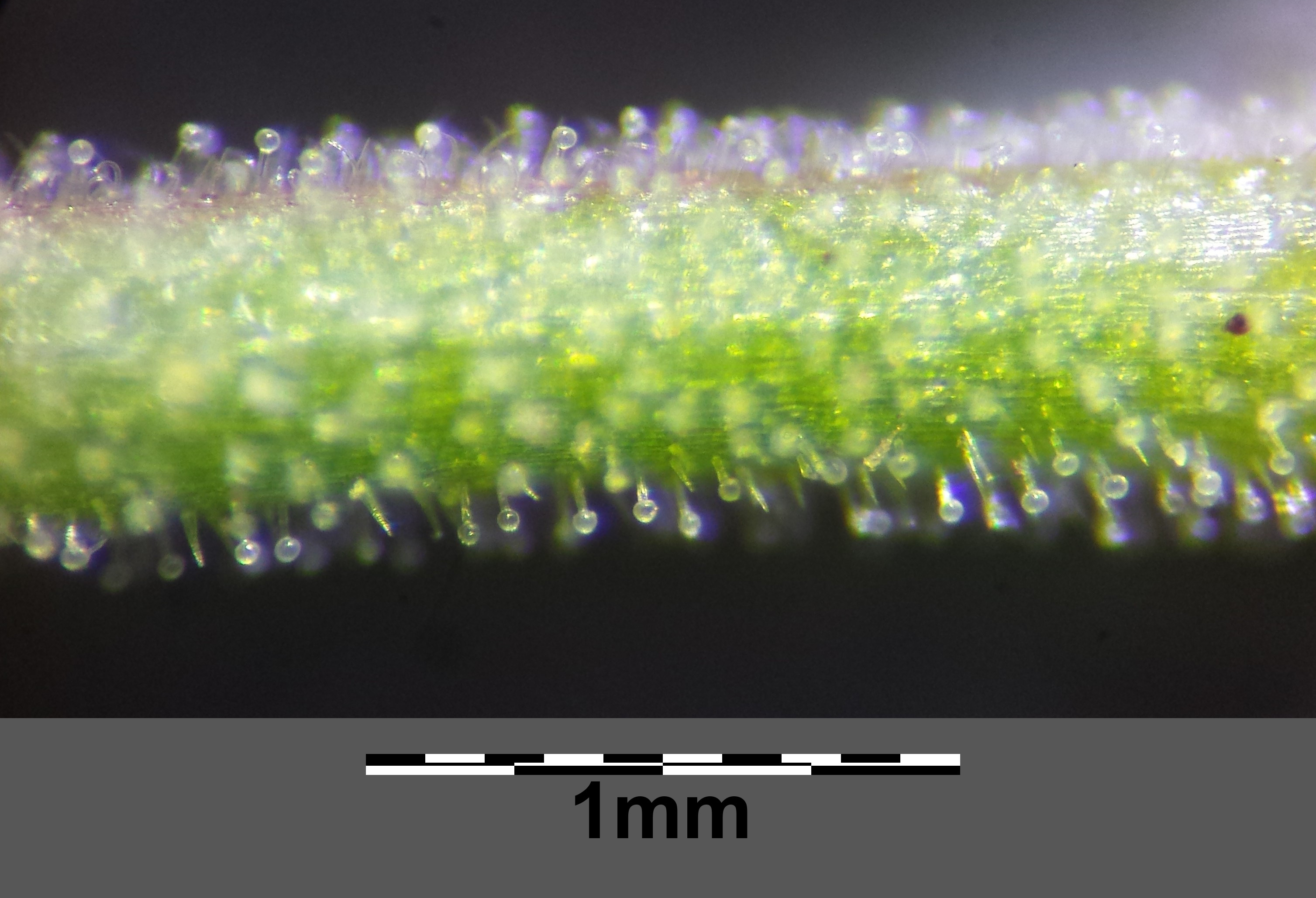 Pedicel with simple and glandular hairs Taxonym: Geranium pyrenaicum ss Fischer et al. EfÖLS 2008 ISBN 978-3-85474-187-9 Location: Jedleseer Friedhof, Vienna-Floridsdorf - ca. 160 m a.s.l. Habitat: lawn